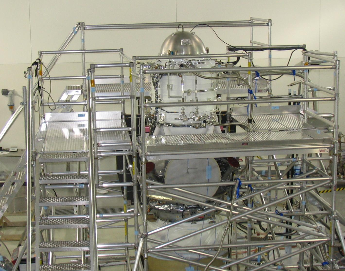 A scaffolding structure built around NASA's Wide-field Infrared Survey Explorer, or WISE, allows engineers full access to the spacecraft while its hydrogen coolant is being frozen. The WISE infrared instrument is kept extremely cold by a spherical tank filled with the frozen hydrogen, called the cryostat. The cryostat enclosure can be seen at the top of the spacecraft.